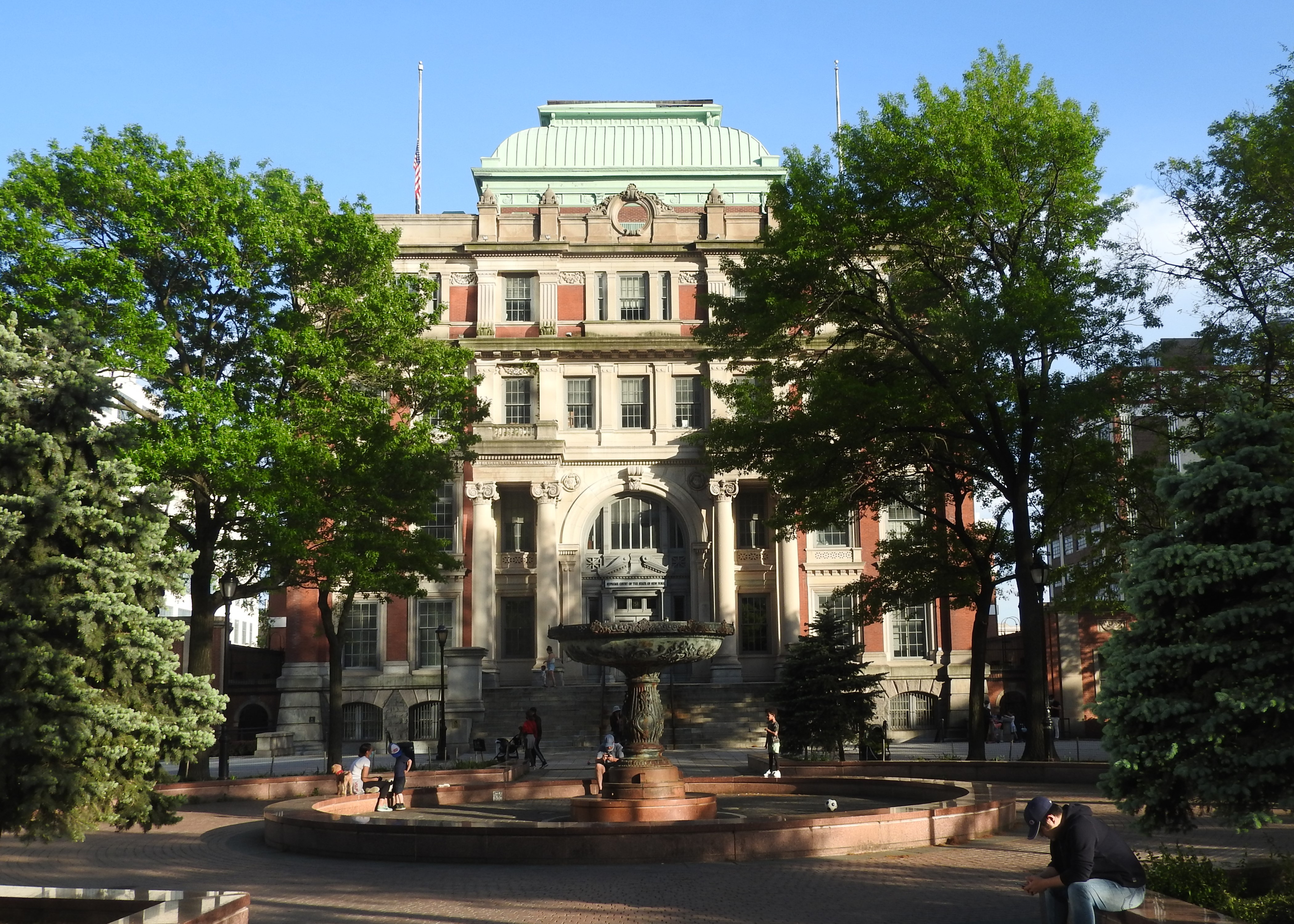 Looking southeast at courthouse on a sunny late afternoon